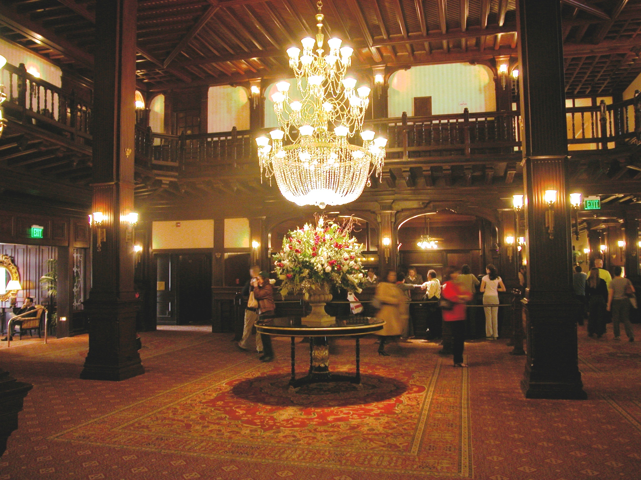 Lobby area in the Hotel del Coronado. Camera used is a Nikon Coolpix 5000.